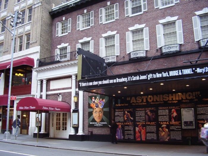 Helen Hayes Theatre, NYC 2006. Photo by Mademoiselle Sabina